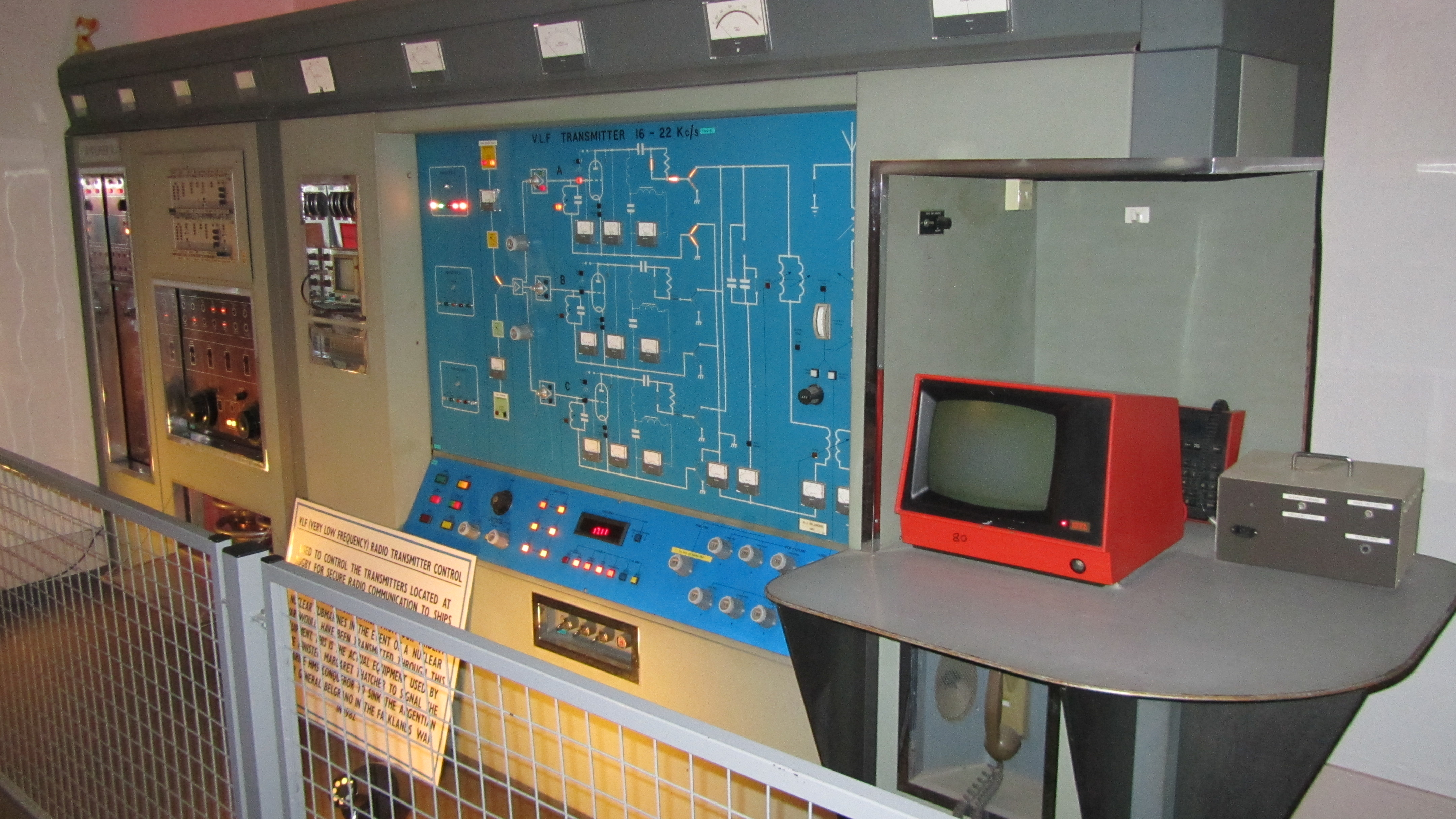 Very Low Frequency (VLF) radio transmitter control panel. Now on display at the Hack Green Secret Nuclear Bunker museum, this equipment was used to control the transmitters located at Rugby (GBR) for secure radio communications to ships and nuclear submarines.